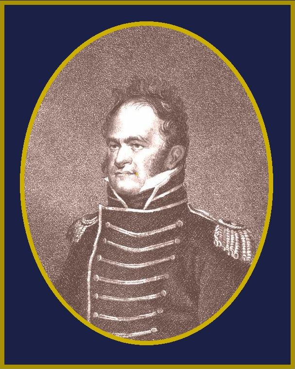 Foxed illustration of John Rodgers Pages that link to this image